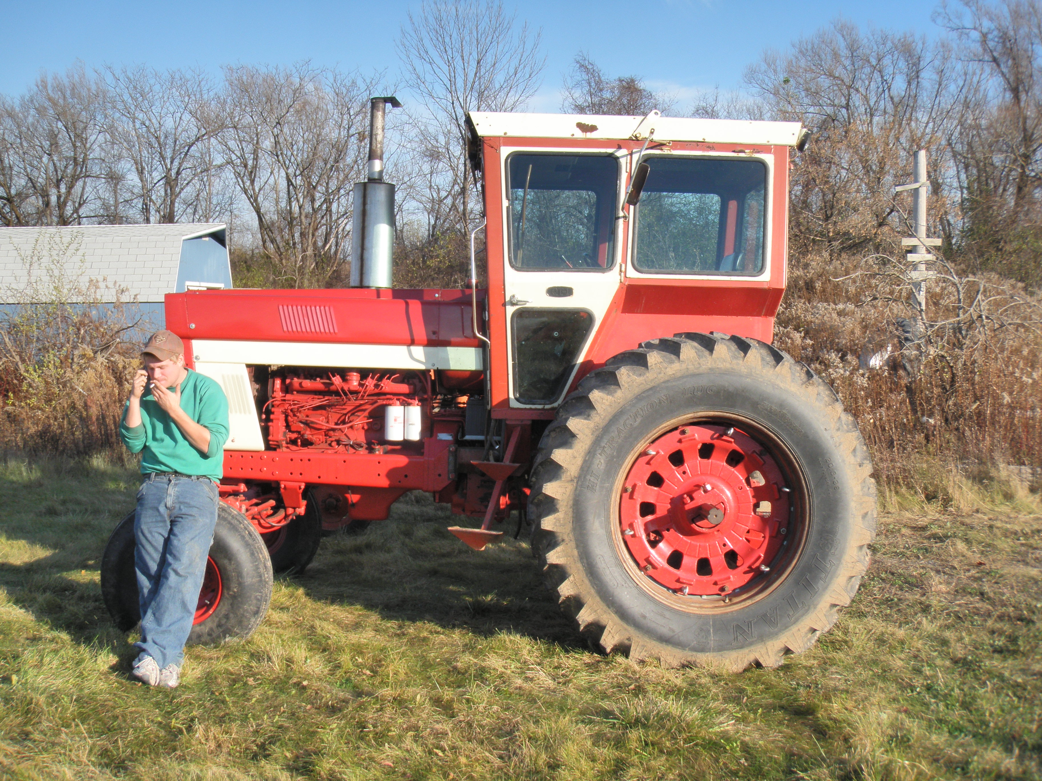 International Harvester 1066 tractor with Custom Cab